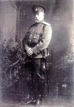 Bagration-Mukhransky, Aleksandr Irakliyevich.